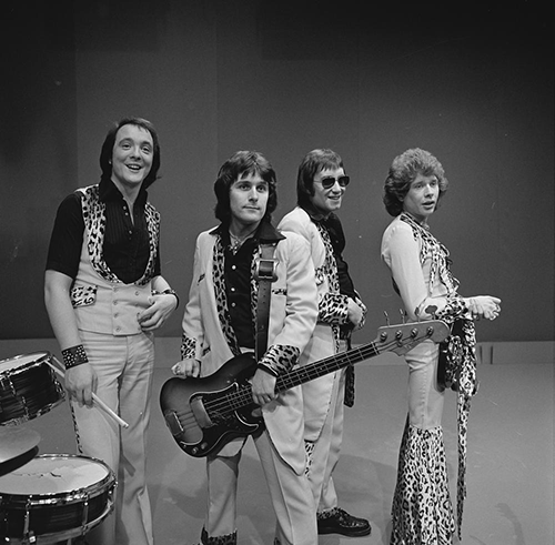 Mud in AVRO's TopPop (Dutch television show) in 1974